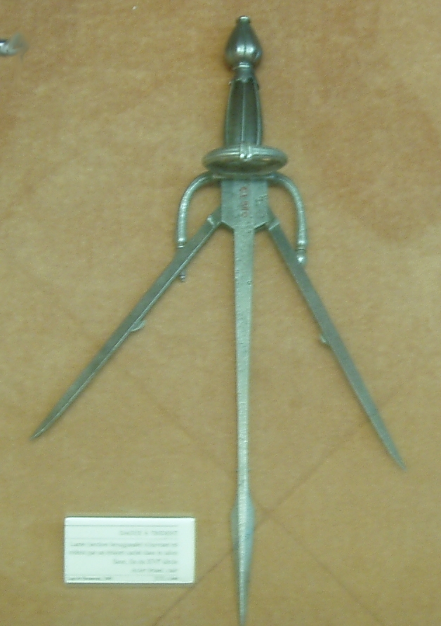 German parrying dagger, Renaissance. A spring pushes outwards the sides of the blade. National Renaissance Museum, Écouen, France.